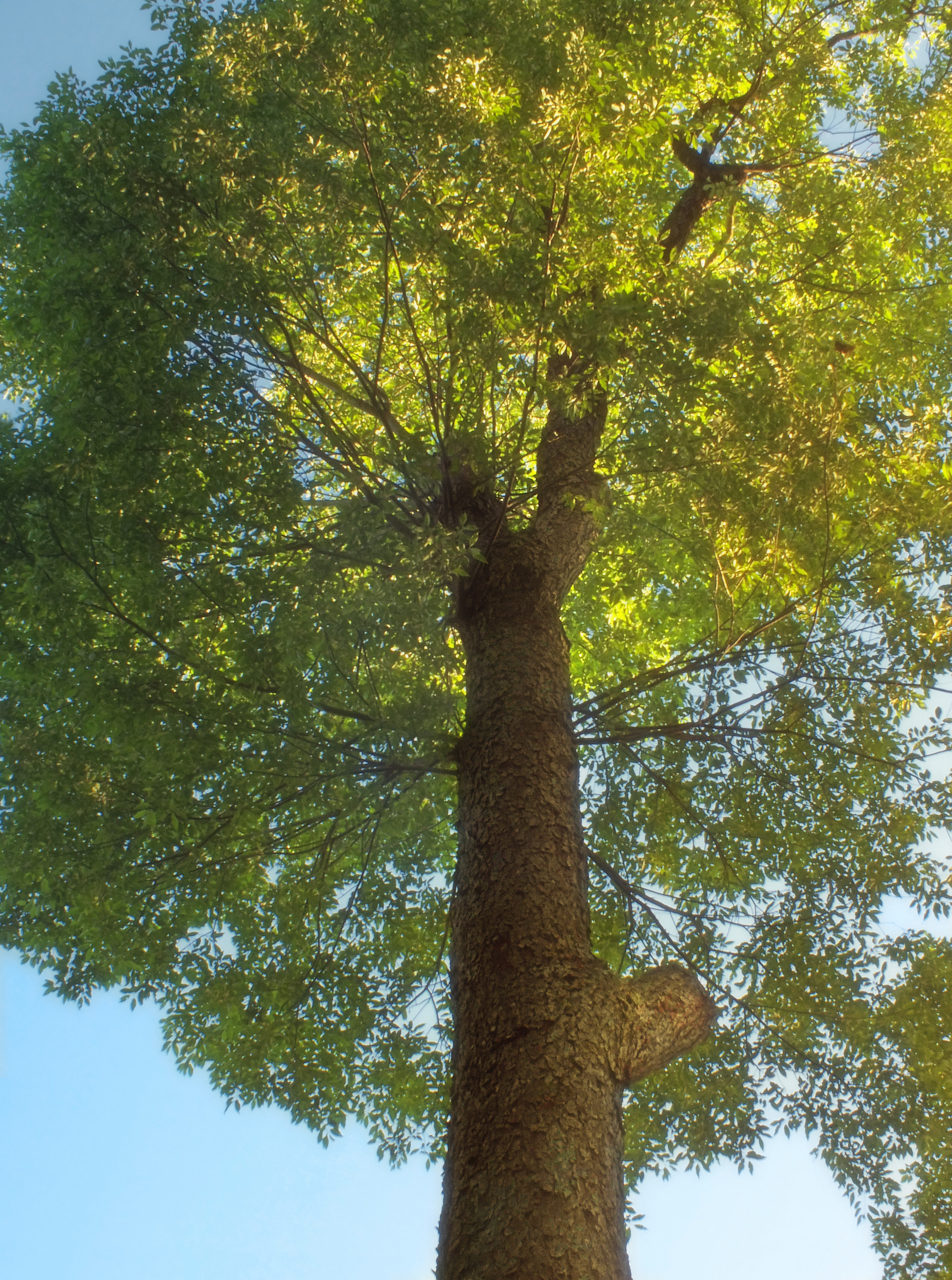 Old-growth black cherry (Prunus serotina), McKean County, within the Tionesta Research Natural Area of Allegheny National Forest. The tree's bark was actually brownish gray, with a hint of purple. The early-morning light, combined with the warming filter used on the camera, imparted a golden hue.